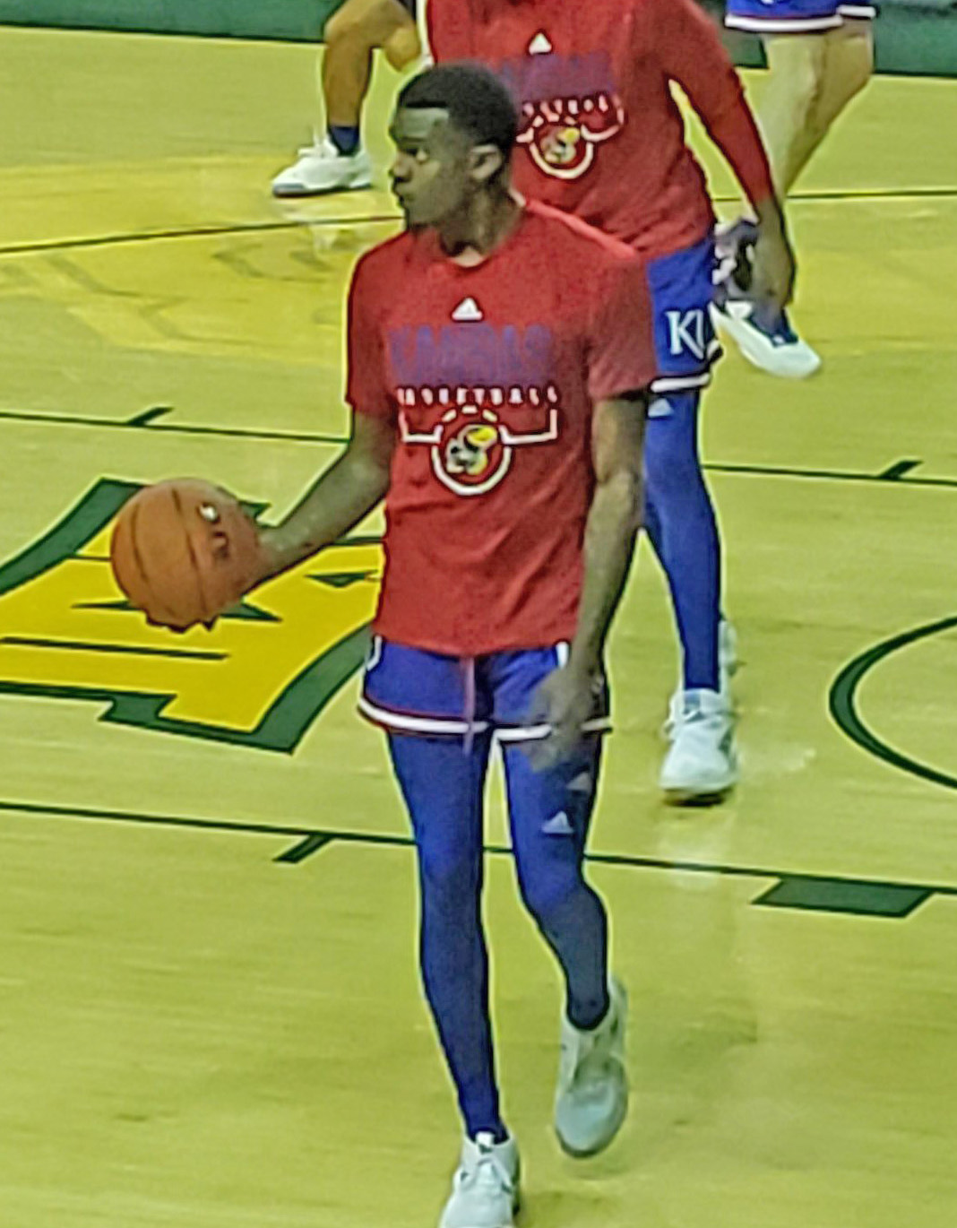 LaGerald Vick warming up before the Kansas Jayhawks - Baylor Bears game in Waco, Texas on January 12, 2019.